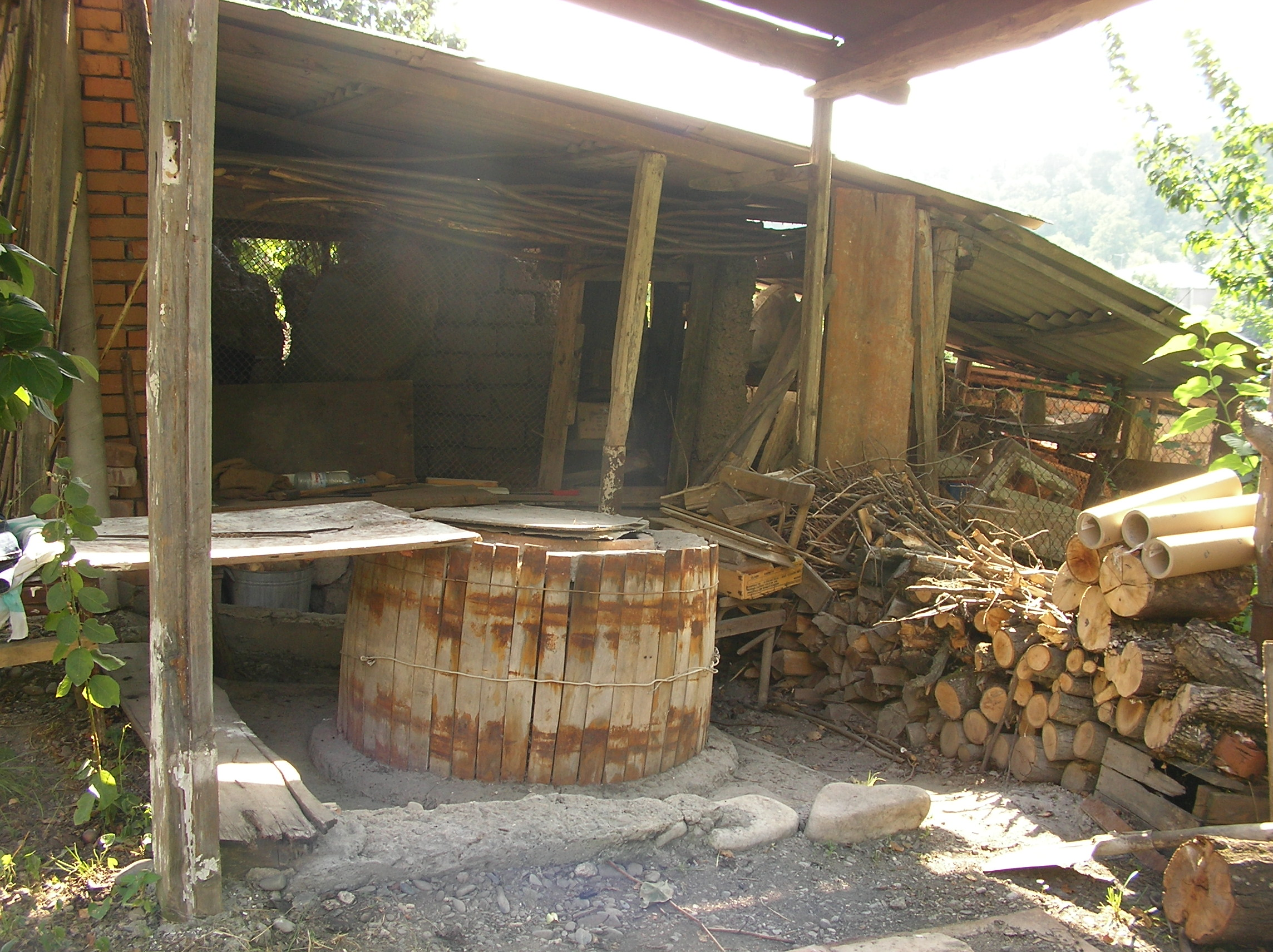 Oven in Khevsureti